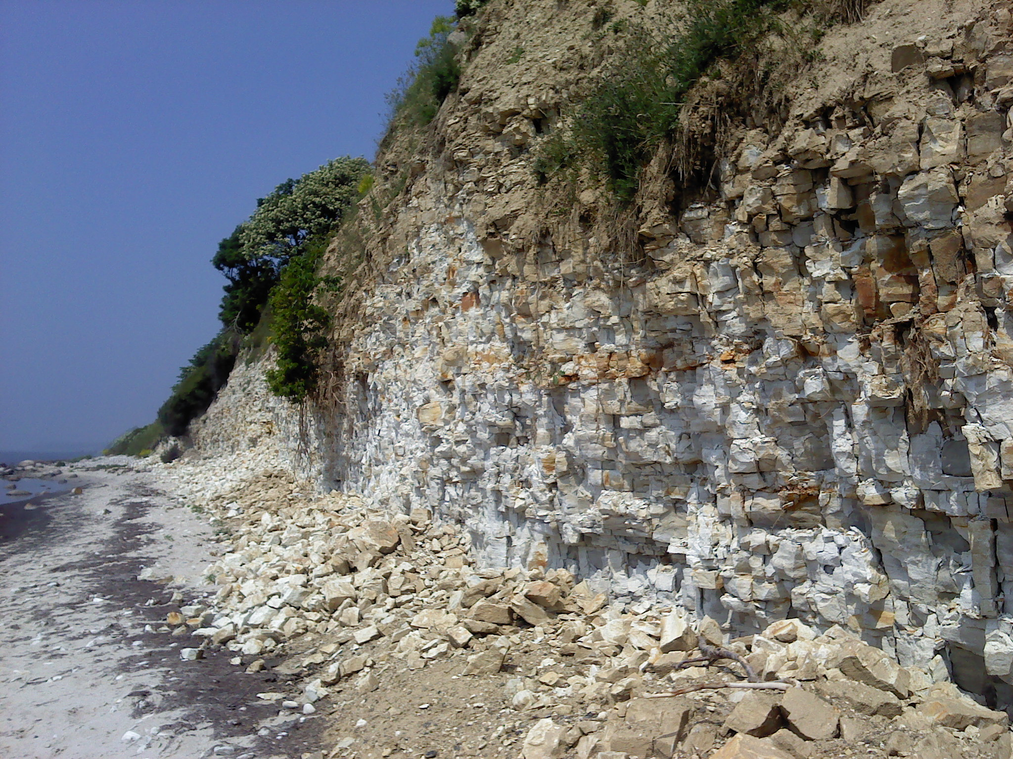 Bornholm, Arnager - Chalk coast